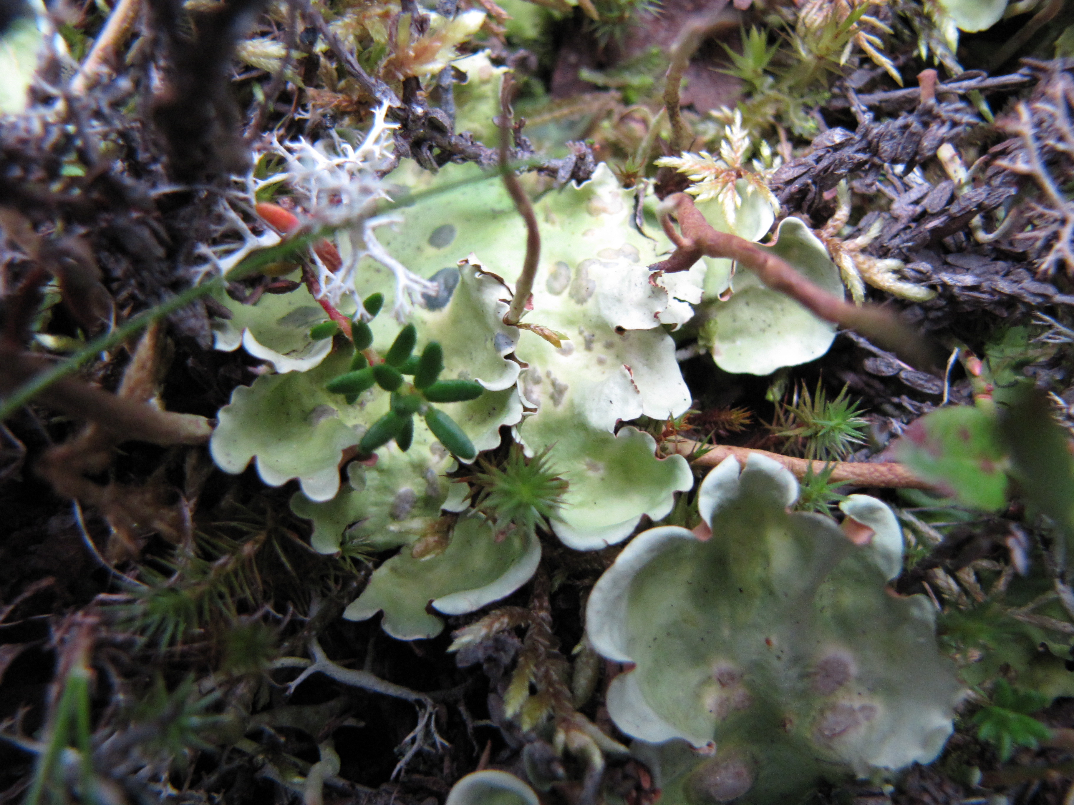 Common Liverwort (Marchantia polymorpha) in Kevo Strict Nature Reserve, Finland